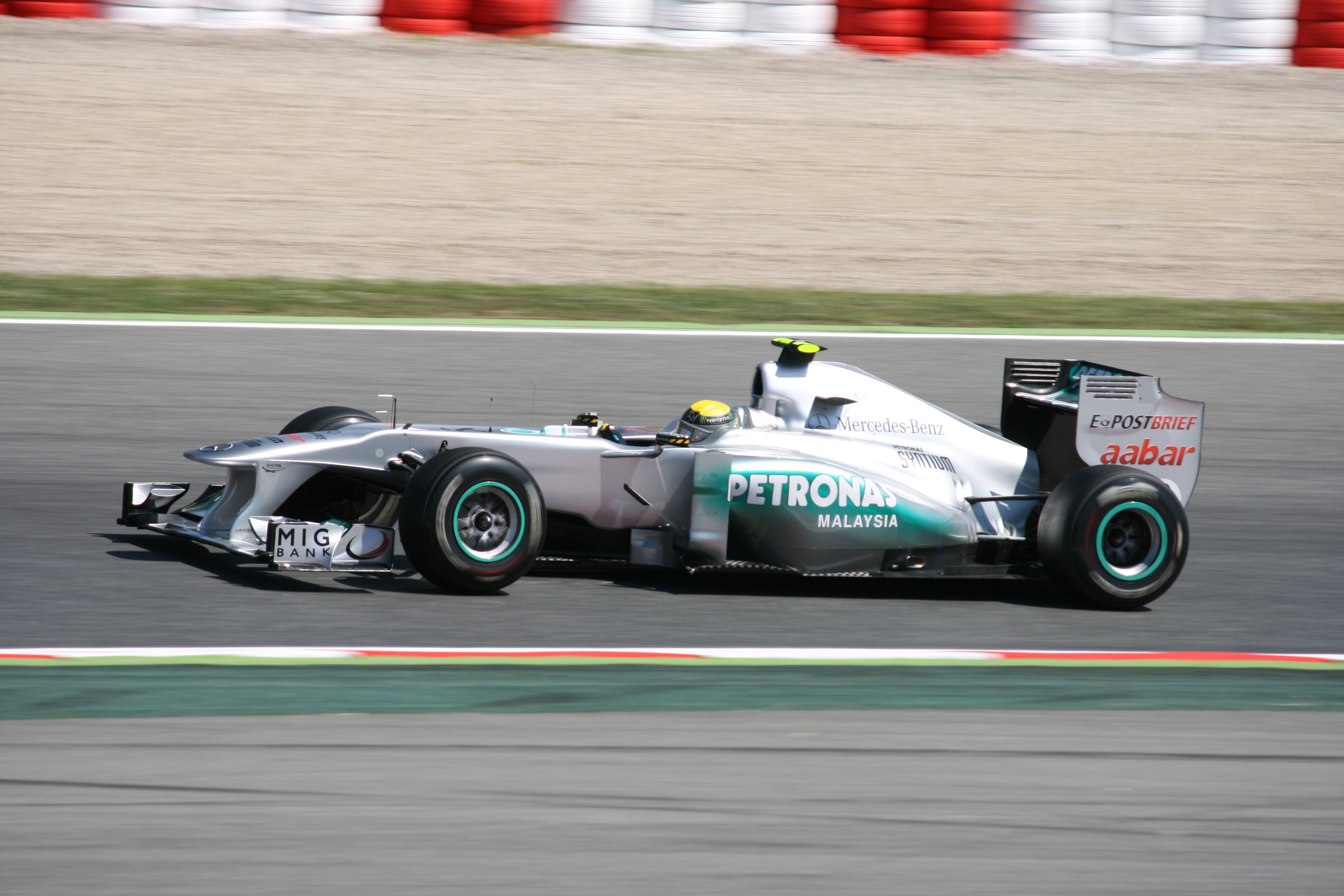 Mercedes MGP W02, Nico Rosberg, Spanish GP 2011